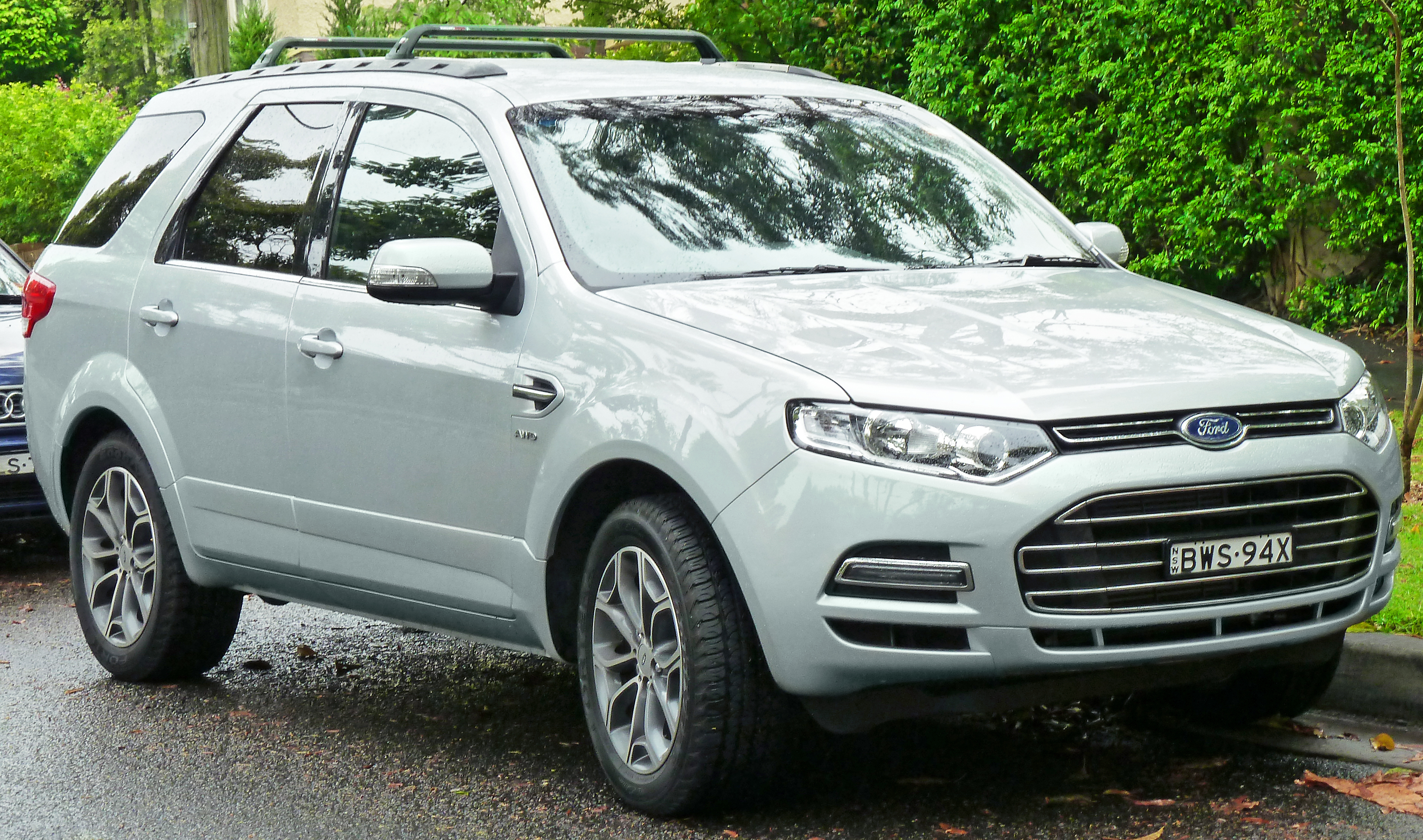 2011 Ford Territory (SZ) Titanium TDCi wagon. Photographed in Roseville, New South Wales, Australia.